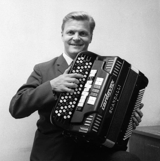 Photograph of the Finnish accordeonist Veikko Ahvenainen (1929–).